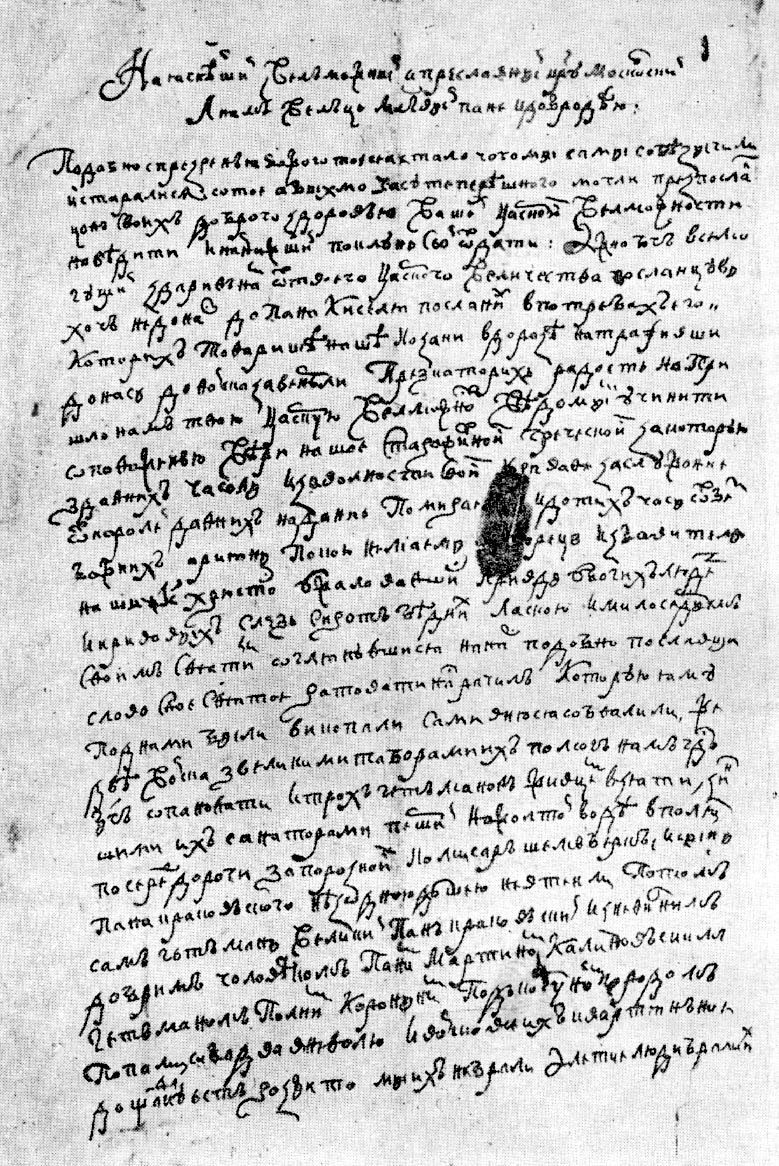 Bohdan Khmelnytsky to tsar